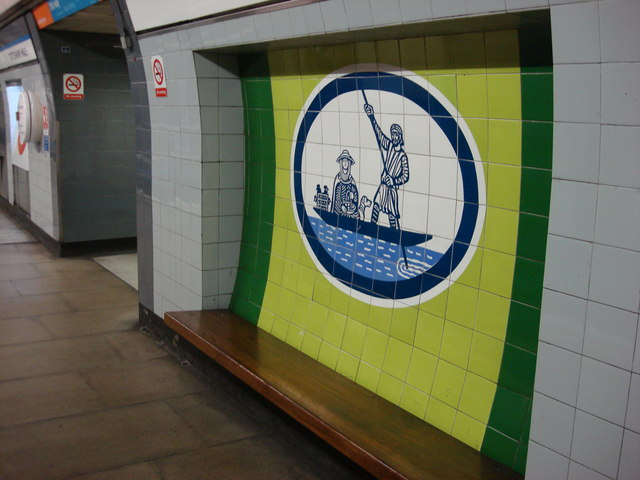 Ferry across the River Lea Motif at Tottenham Hale tube station